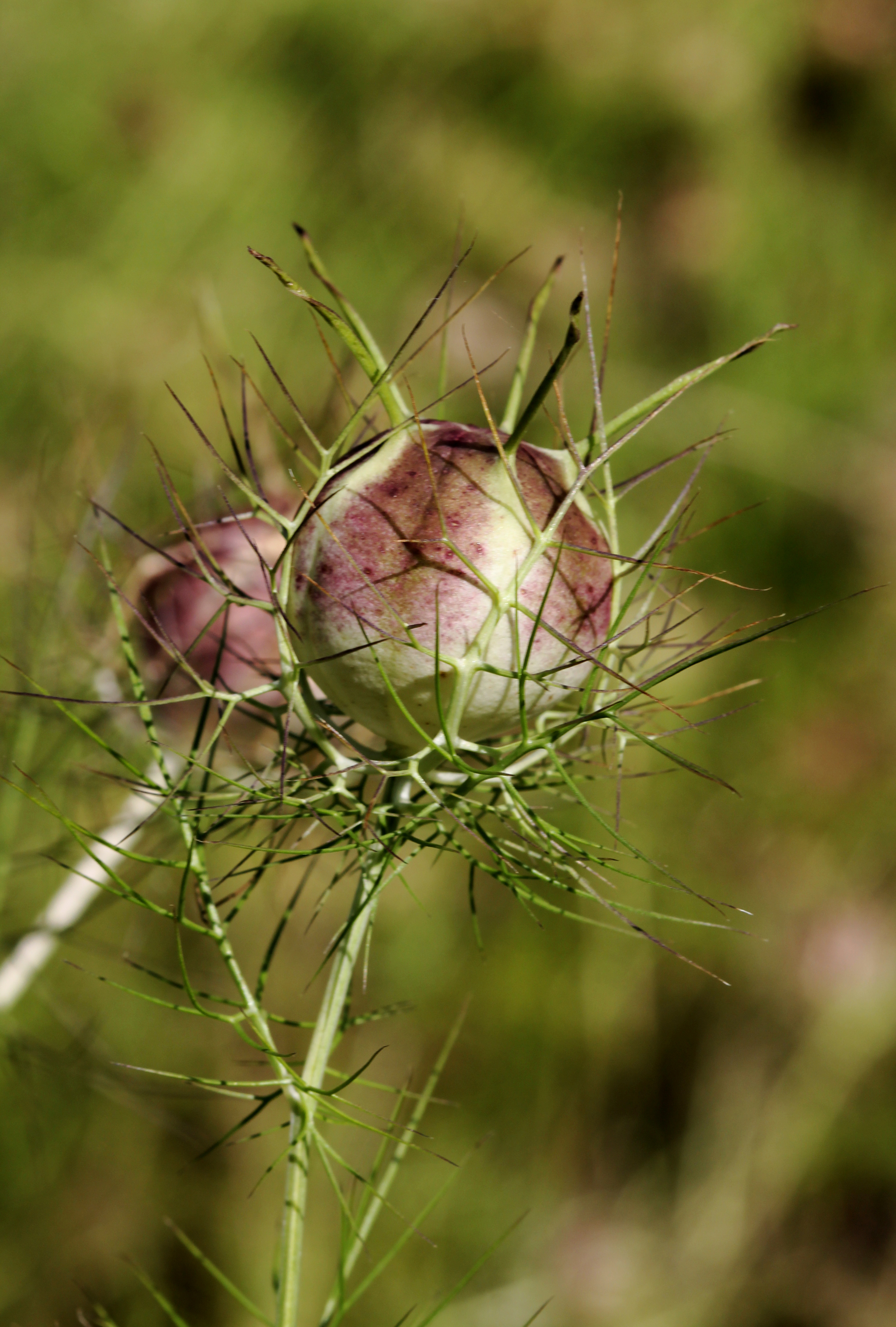 Fruit of plant Nigella damascena, (Nigella damascena), the Botanical Gardens of Charles University, Prague, Czech Republic